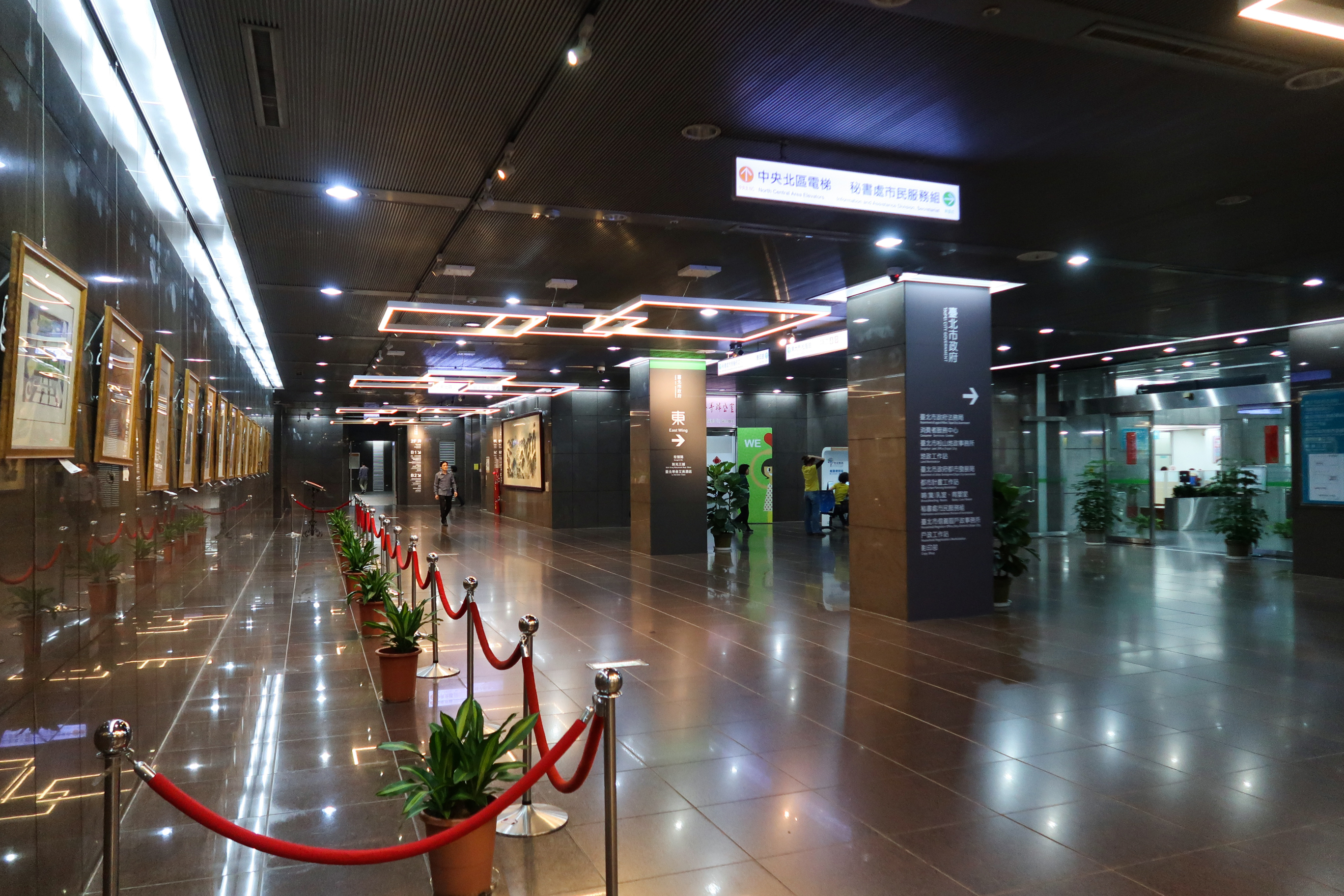 Taipei City Hall Atrium Level 1 lobby